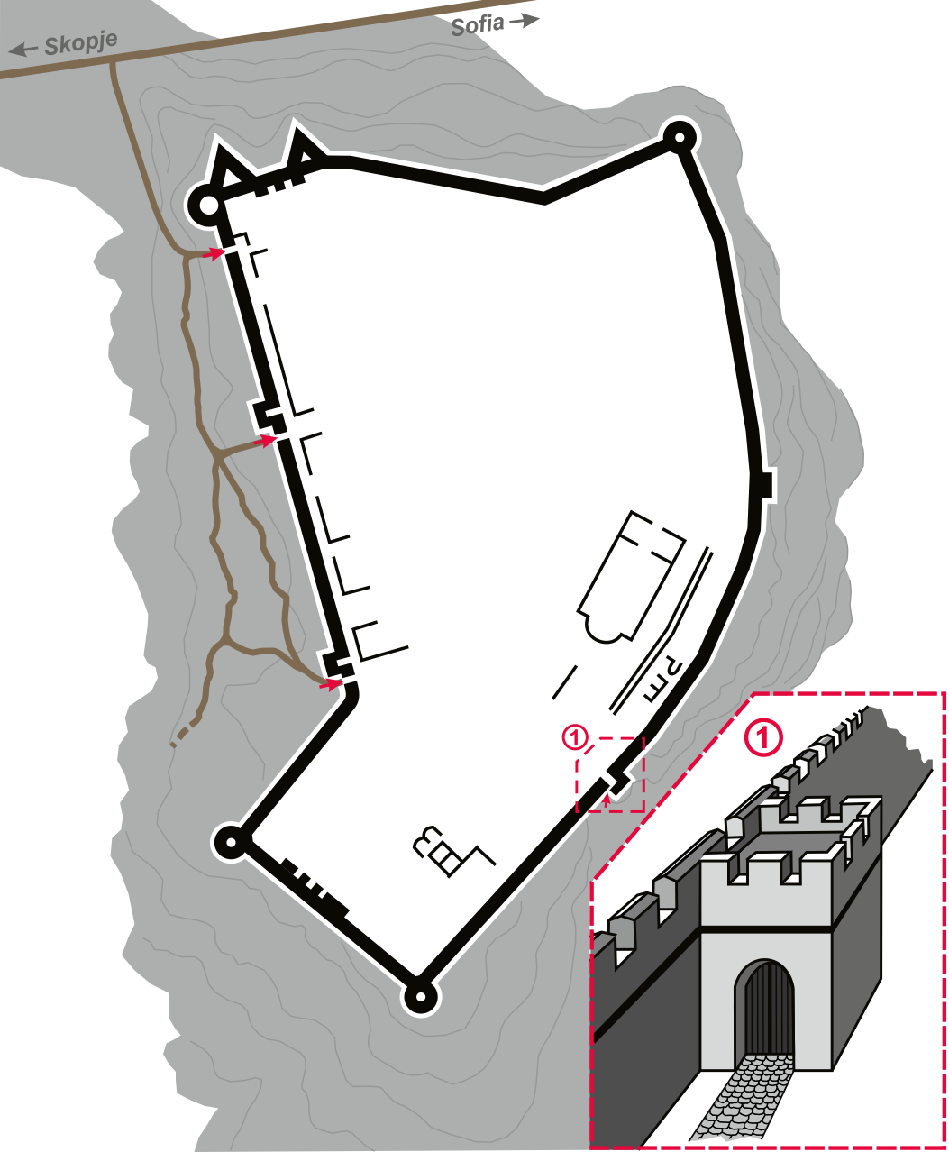 Plan of the medieval Bulgarian fortress Velbazhd. Based on: [1]